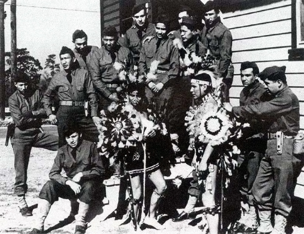 Comanche code-talkers of the 4th Signal Company (U.S. Army Signal Center and Ft. Gordon) ""